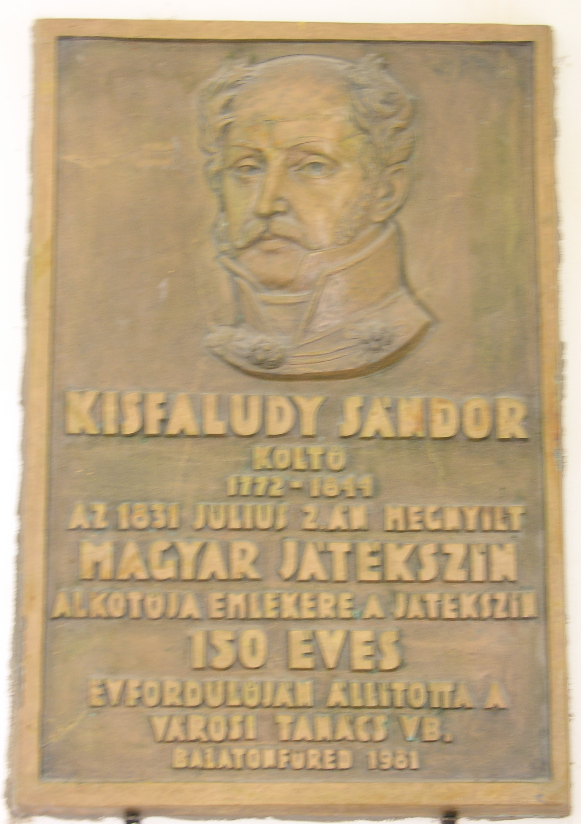 Commemorative plaque of Sándor Kisfaludy in Balatonfüred, Gyógy Square No 1